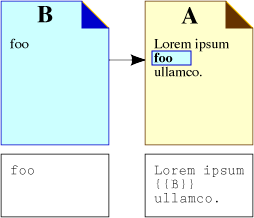 An illustration of transclusion. Xiong is the creator of this original illustration.